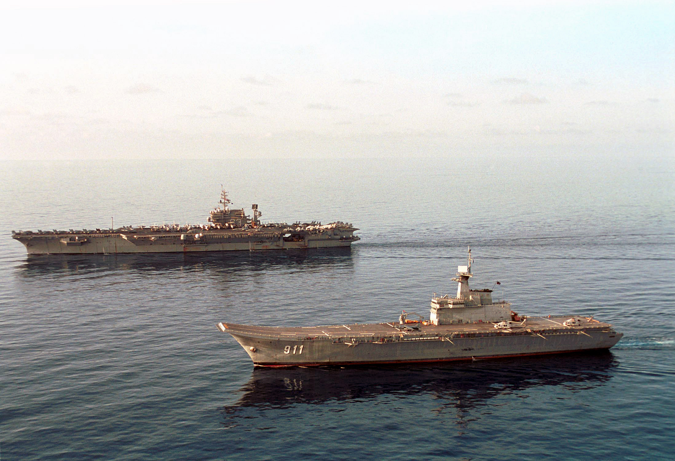 The Royal Thai Naval vessel HTMS CHAKRI NARUEBET (CVH 911), a helicopter carrier, operates along side the USS KITTY HAWK (CV 63).